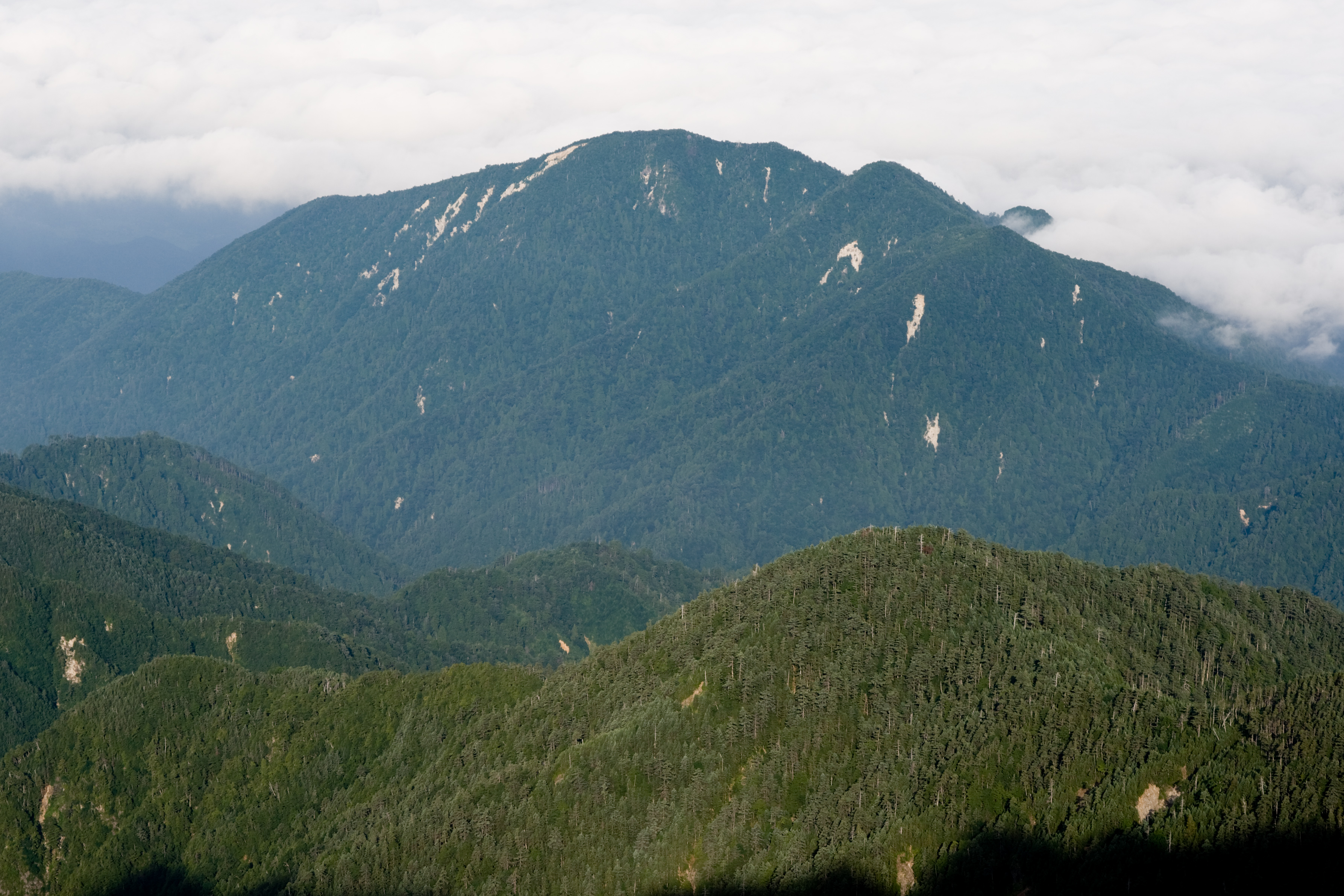 Mt.Itose (Itose-yama) as seen from Mt.Utsugidake, Nagano, Japan.